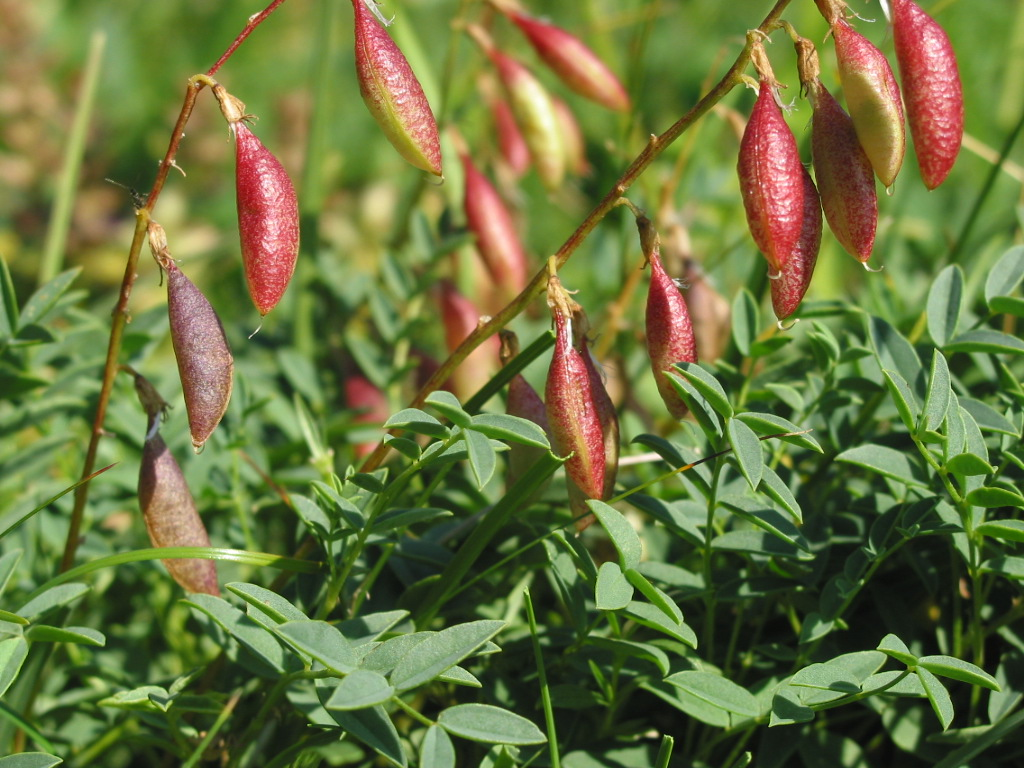 Astragalus australis